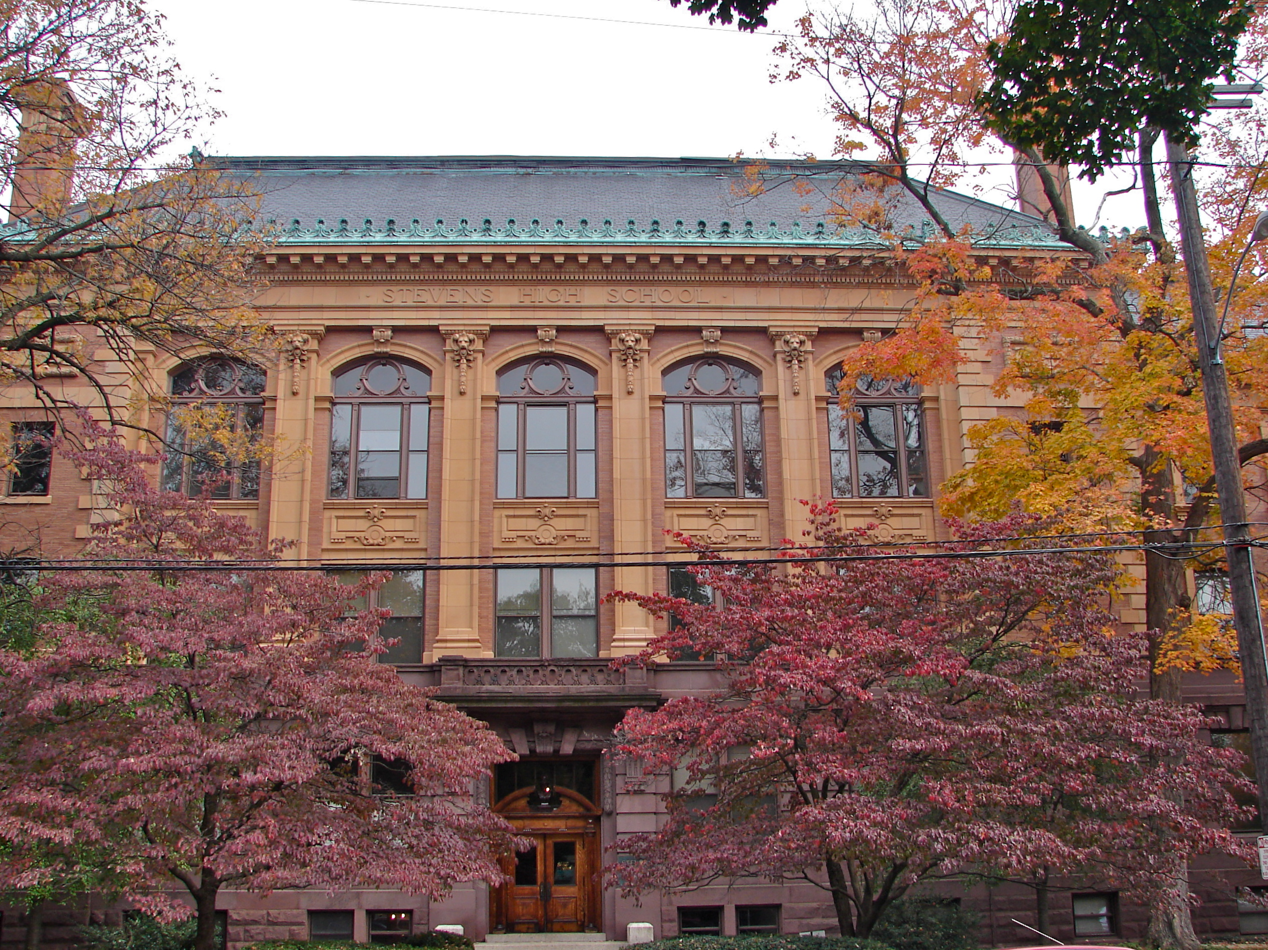 Thaddeus Stevens High School on the NRHP since June 30, 1983. On West Chestnut and Charlotte Streets in Lancaster, Pennsylvania in the Chestnut Hill neighborhood. Used as a school about 1907 into the 1950s. Now Condos. Across the street from the Mansion "West Lawn" also on the NRHP. Lancaster was the hometown of Stevens, congressman during the Civil War, and abolitionist. See also Thad Stevens HS door.JPG for a springtime photo.